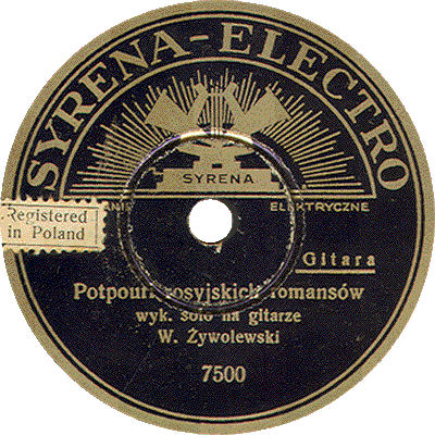 Label of records produced by Syrena Electro in 1932